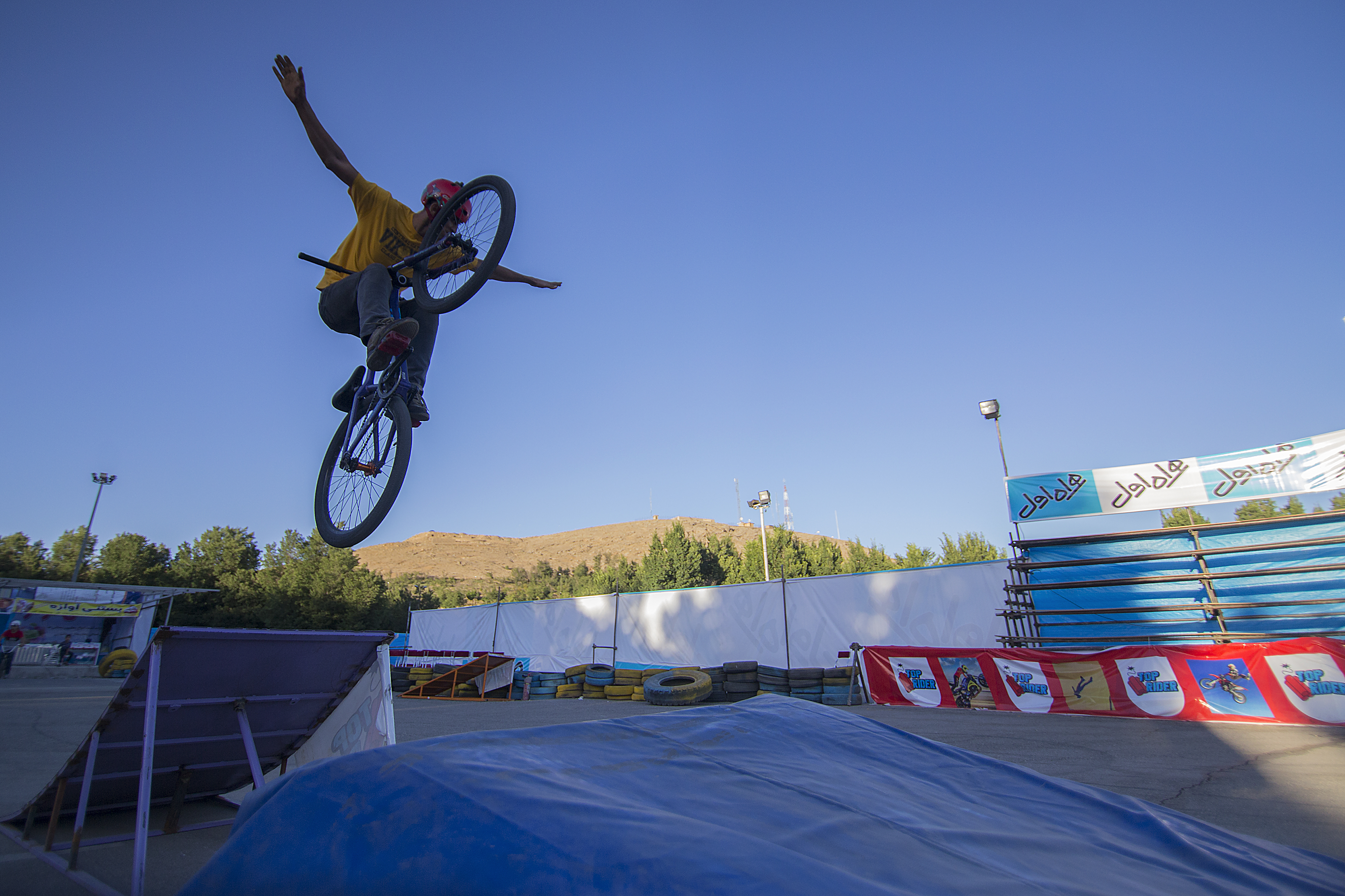 BMX, an abbreviation for bicycle motocross or bike motocross, is a cycle sport performed on BMX bikes, either in competitive BMX racing or freestyle BMX, or else in general on- or off-road recreation. photography place: Iran, Shahr-e Kord BMX rider: javad Abedini Photographer: Mostafa Meraji